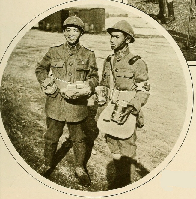 “Siamese Soldiers in France” - from the book Fighting America's fight.